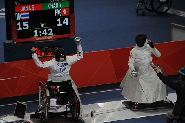 London Paralympic Games-2012 by Ilgar Jafarov